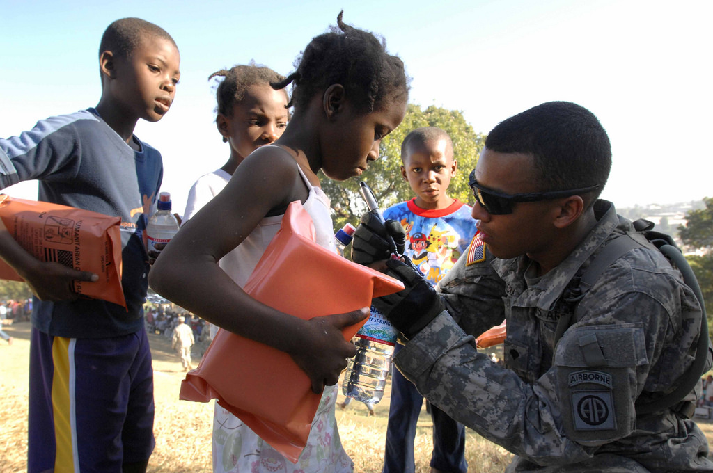 Spc. Juan Valencia marks the fingernail of a small girl to indicate she has gone through the distribution line in Port-au-Prince, Jan. 18, 2010. Valencia is with the 82nd Airborne Division's 1st Squadron, 73rd Cavalry Regiment. The squadron established the forward operating base three days ago and has already passed out thousands of meals and bottles of water.